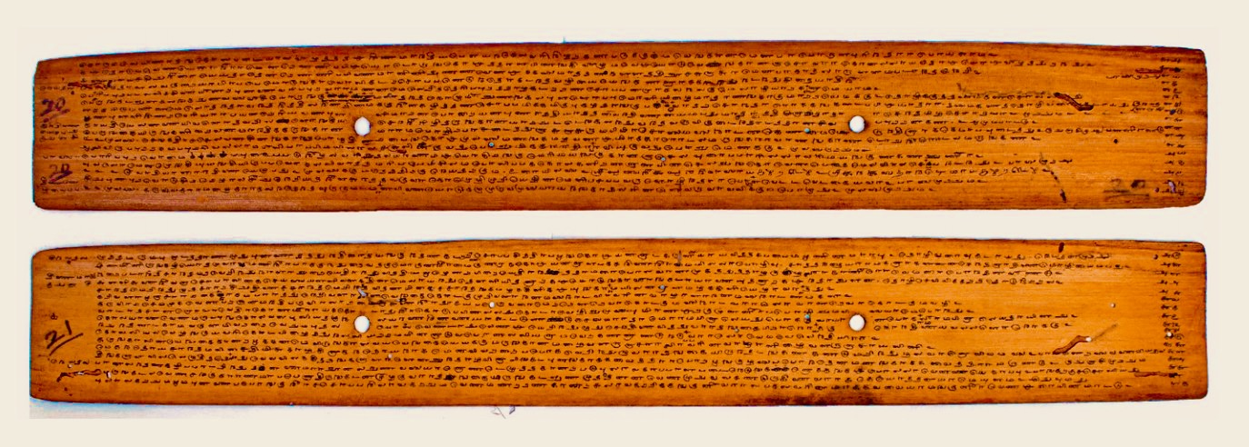 The UVSL 589 is a multi-text, 100 folio palm manuscript book preserved at the U. V. Swaminatha Aiyar Library in Chennai. The book consists of palm leaf pages with texts written on it on both sides, with holes with which it is traditionally tied with a rope like millions of historic palm leaf manuscripts found in South Asia (India, Nepal in particular). The pages of the book have three primary languages (Tamil, Sanskrit and little bit Telugu) and three scripts (Tamil, Grantha and Telugu). Since it was discovered in the 19th-century, the discovering scholars likely added the arabic numerals on the left (page 20 and 21). This suggests that a Telugu and Tamil community likely worked together to create and preserve this text. This manuscript has sections of multiple Tamil texts, including the Tirumurukarruppatai - a Sangam era text (pre-3rd century CE). Since the hot humid plant-eating insects environment of South India causes palm leaf manuscript manuscripts to degrade over time (decades or a century), these manuscripts were copied over time. The text has copious signs and dedications on numerous pages to the Shaiva tradition of Hinduism, and was preserved by Shaiva Hindu monastery. For a scholarly analysis of this manuscript: Jonas Buchholz and Giovanni Ciotti (2017), What a Multiple-text Manuscript Can Tell Us about the Tamil Scholarly Tradition: The Case of UVSL 589, ISSN 1867–9617, Universitat Hamburg, Germany Note: This is a photograph of a 2D-Art work of ancient and pre-12th century texts in a manuscript that was produced a century or so before 1875 CE, and therefore wikimedia foundation's 2D-Art policies apply. Any rights I have as a photographer, I herewith donate to Wikimedia Commons under the creative commons 4.0 license terms.